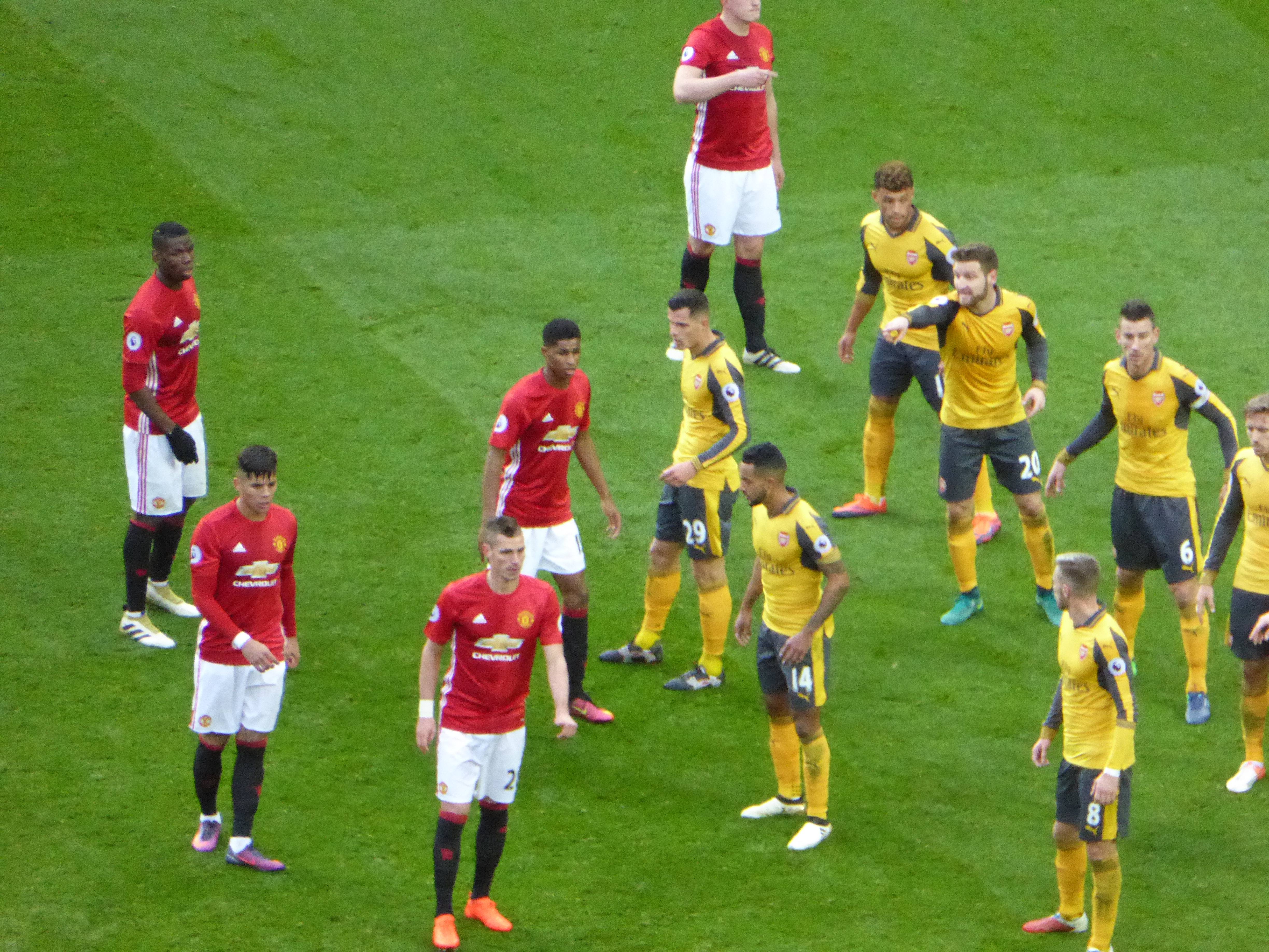 Manchester United v Arsenal (1-1), Premier League, Old Trafford, Manchester, Greater Manchester, England, 19 November 2016